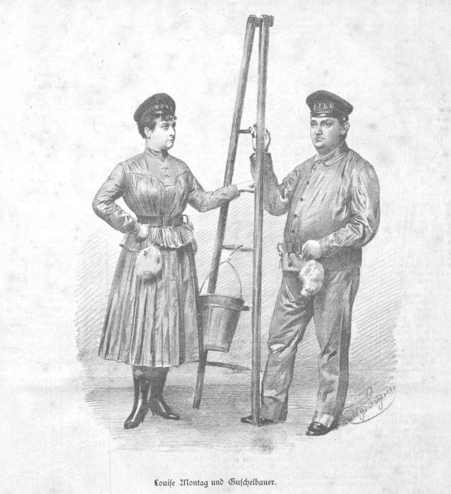 Louise Montag and Edmund Guschelbauer, a pair of Austrian comic singers and actors